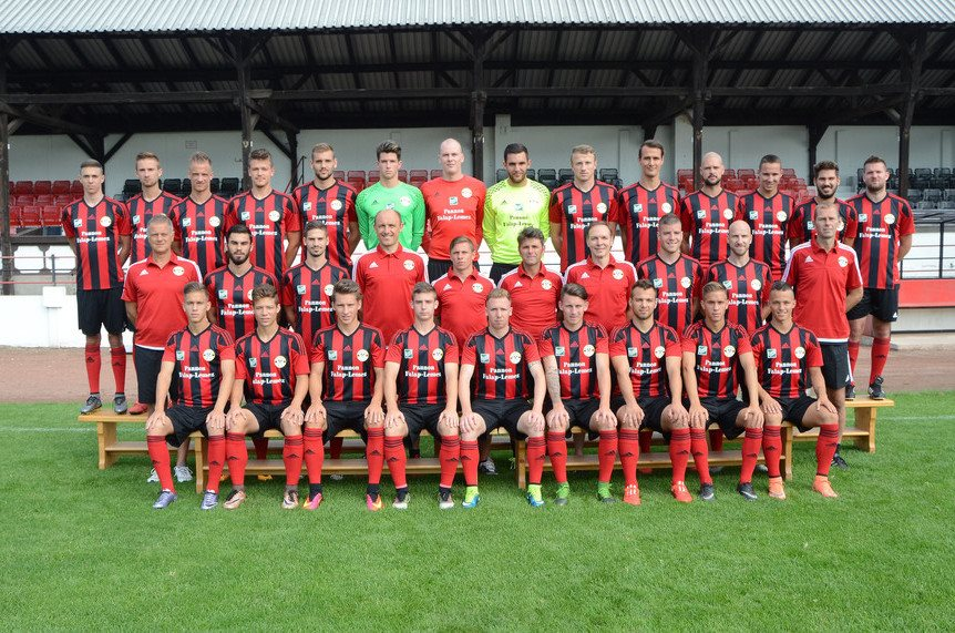 The soccer team of the 2016-17 division